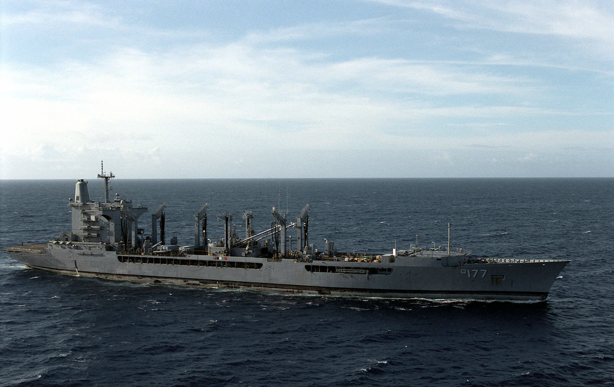 The U.S. Navy fleet oiler USS Cimarron (AO-177) returns to Pearl Harbor, Hawaii (USA), at the end of exercise "RIMPAC '98" on 2 August 1998.